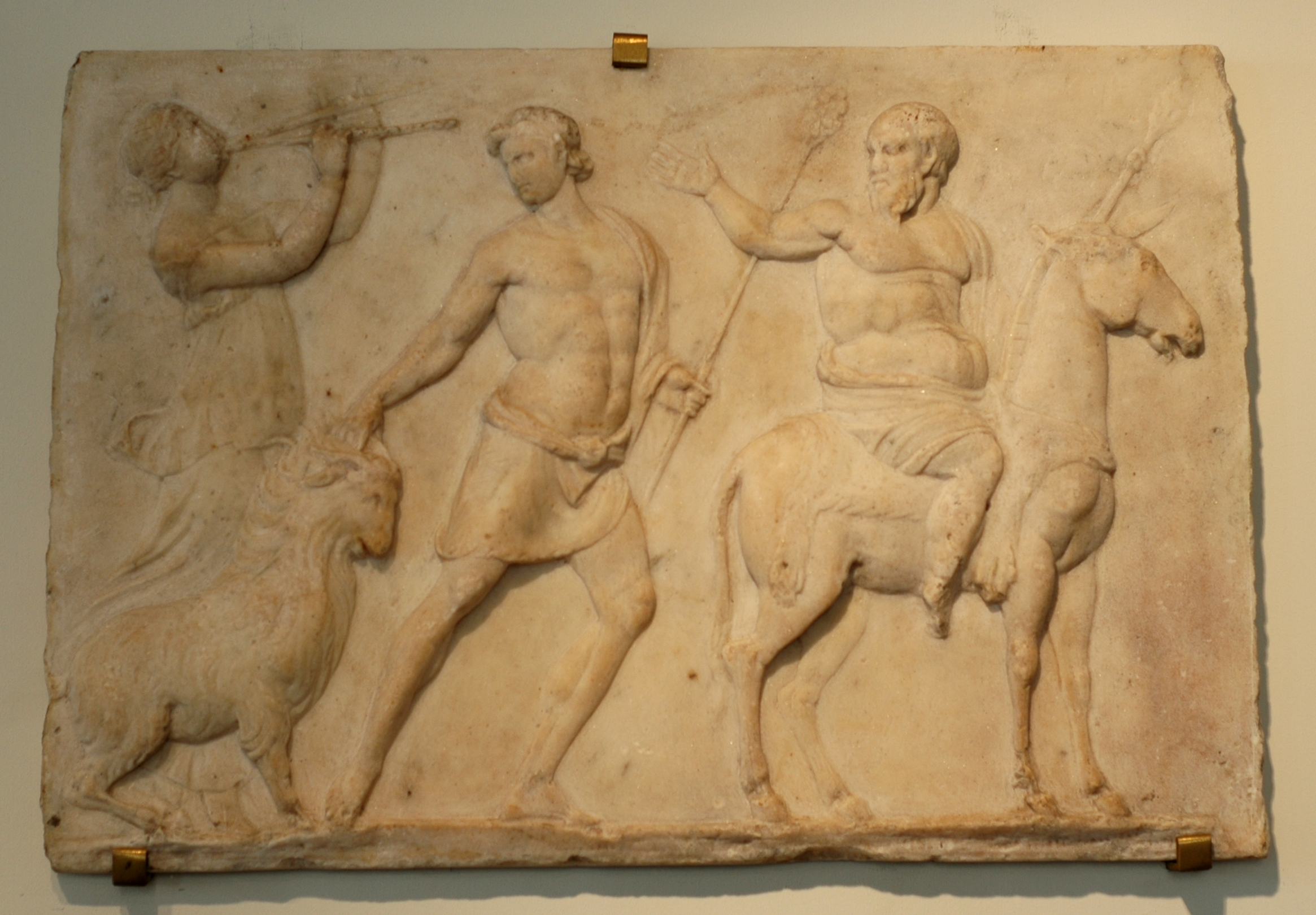 Silenus riding a donkey. White marble, late 1st century BC.